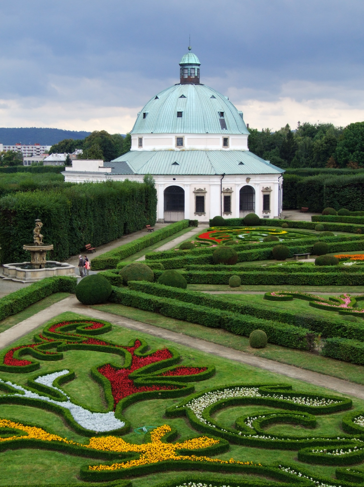 Flower Garden (Květná zahrada) in Kroměříž (Kremsier), Moravia, Czech Republic